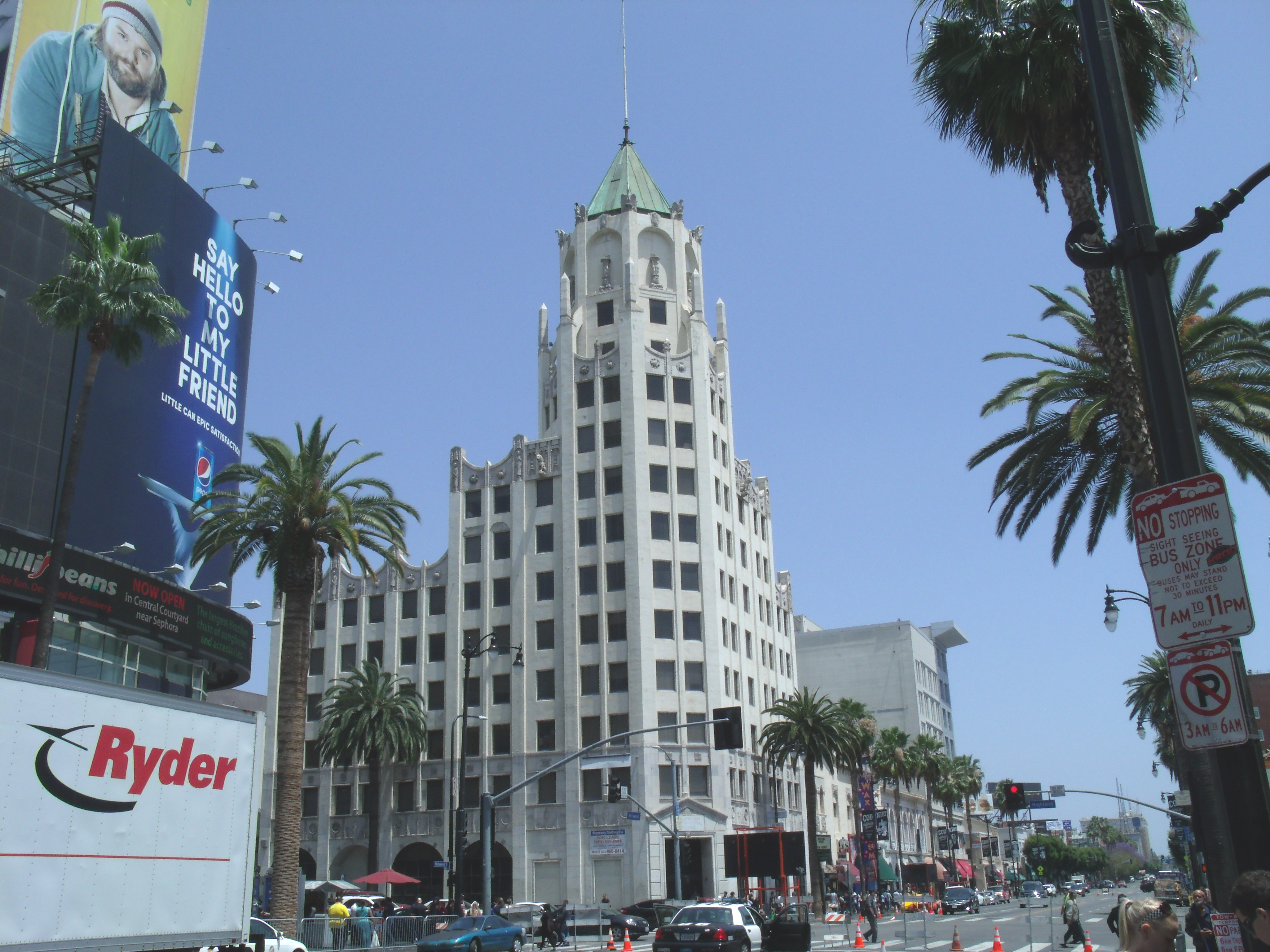 The First National Bank is a 13-story Neo-Gothic structure located at 6777 Hollywood Boulevard which was built in 1928. It served as one of the Metropolis backdrops for the 1950’s Superman TV series.First National Bank